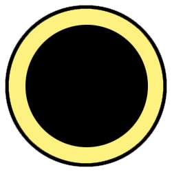 light stop for dark field illumination microscopy